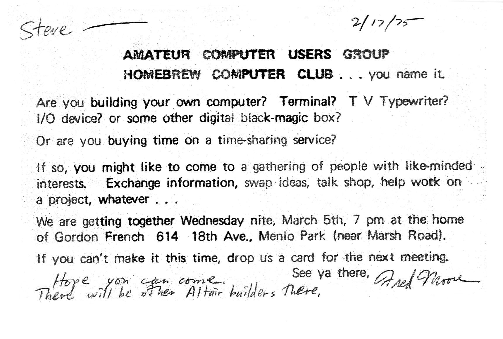 Invitation sent to Steve Dompier by Fred Moore on February 17, 1975 inviting Steve to attend the first meeting of the Homebrew Computer Club on March 5, 1975 at the home of Gordon French.